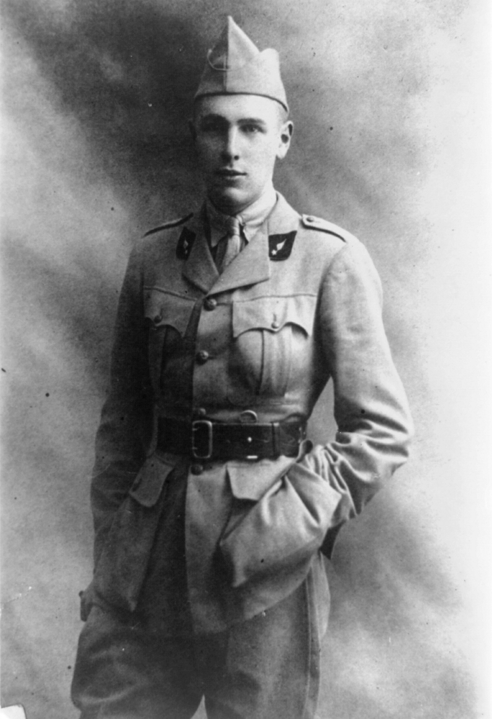 Thomas Hitchcock, Jr., three-quarter length portrait, standing, facing front, in uniform